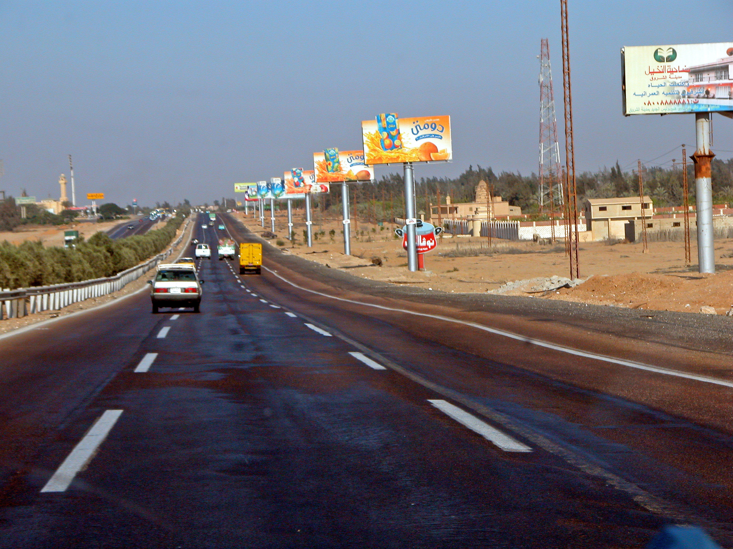 Billboards were all along the highway. Egypt